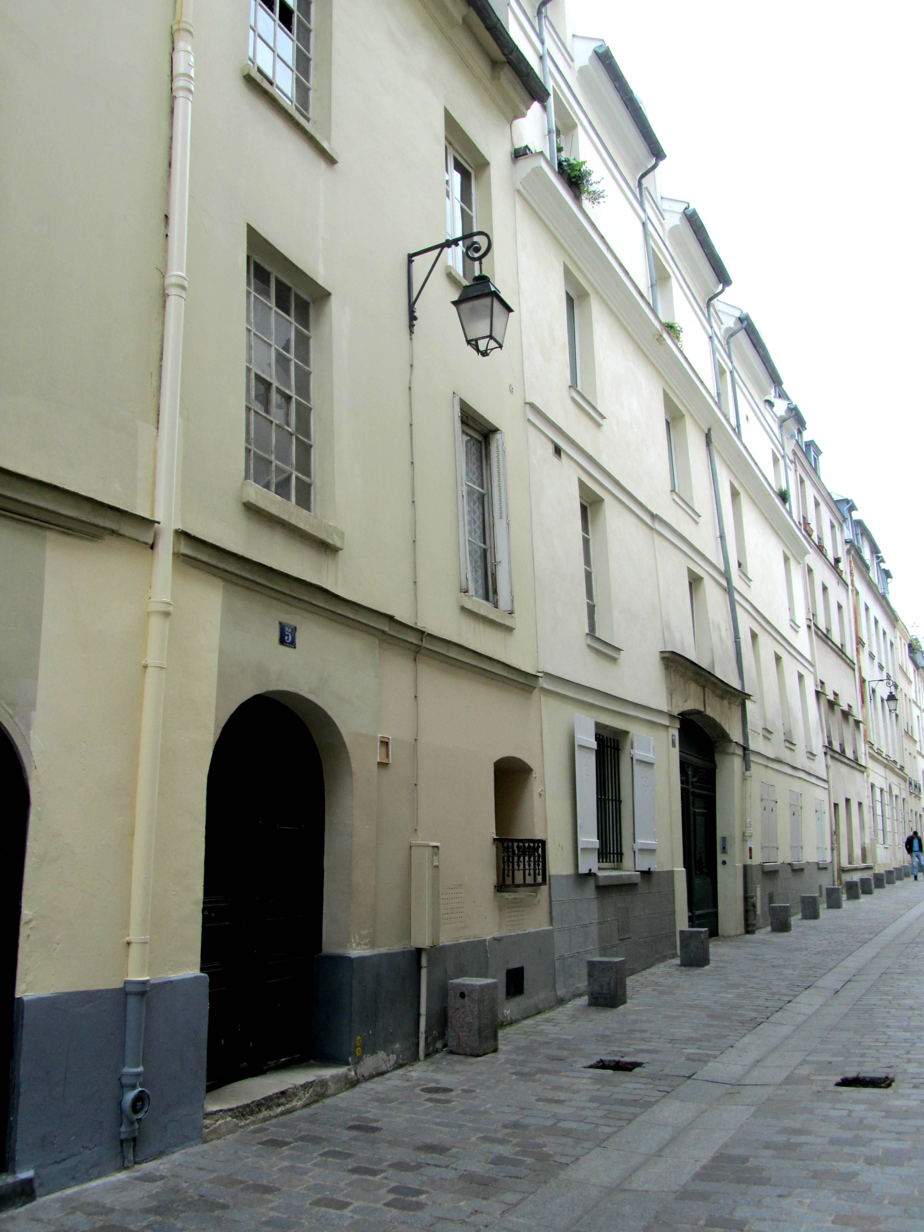 Rue Rollin, No. 5 in the 5th arrondissement of Paris. Austrian painter/artist Erich Schmid used to live here.